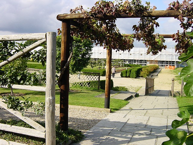 Fishbourne Roman Palace. The northern half of the gardens (seen beyond the pergola) have been recreated following the original design with low box hedging. The vine bearing pergola lies to the south in an area containing a display of medicinal and culinary herbs with notes as to their use in ancient times. The wonderful mosaics (see 19254 for an example) in the north wing are protected by the building in the background (undergoing repairs in the summer of 2005, hence the scaffolding) The A259 cuts through the south wing of the villa but the recreated formal garden in the courtyard gives some idea of the original size of this important building - covering about 4 hectares (10 acres).